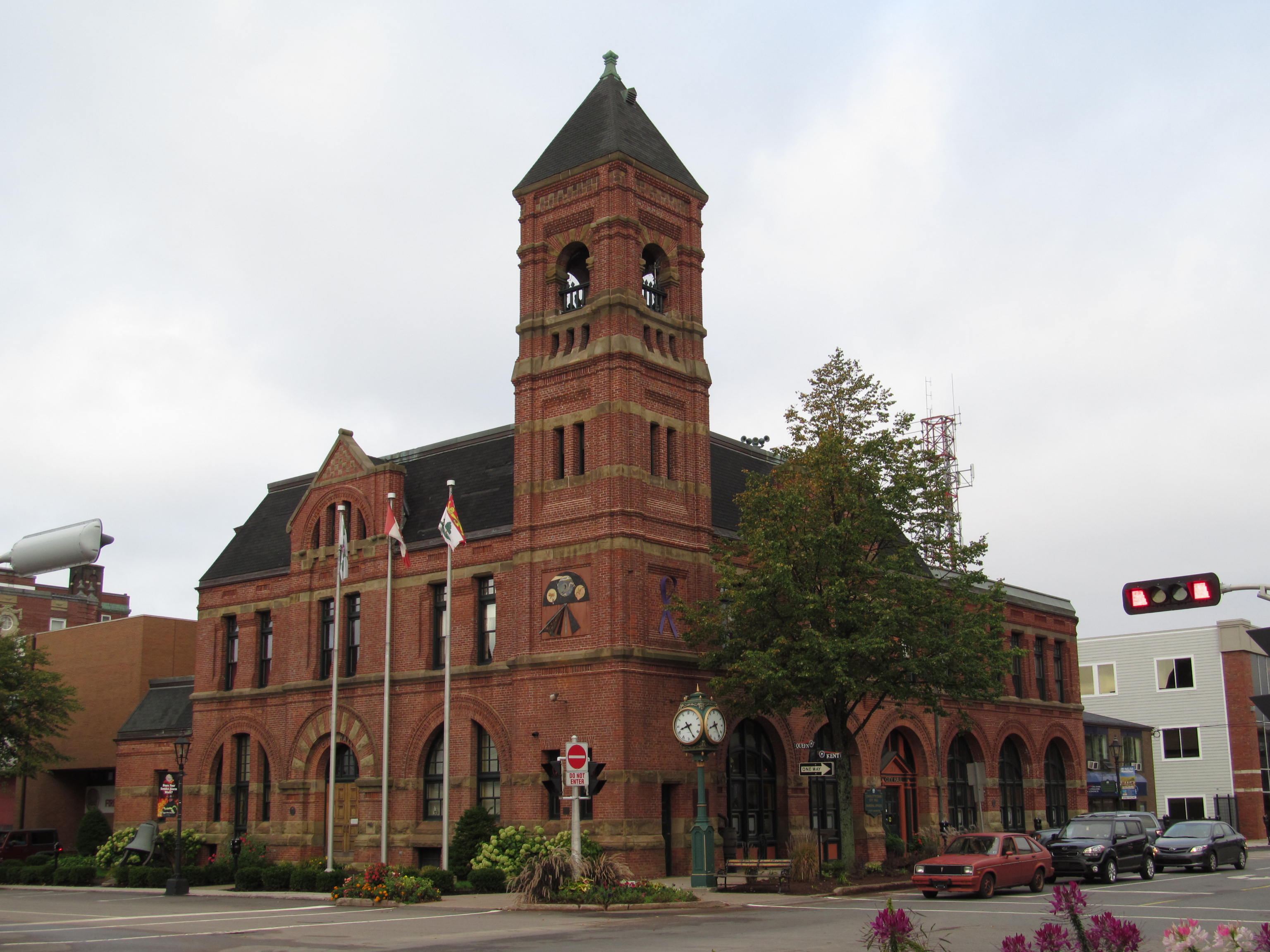 The City Hall of Charlottetown, Prince Edward Island.